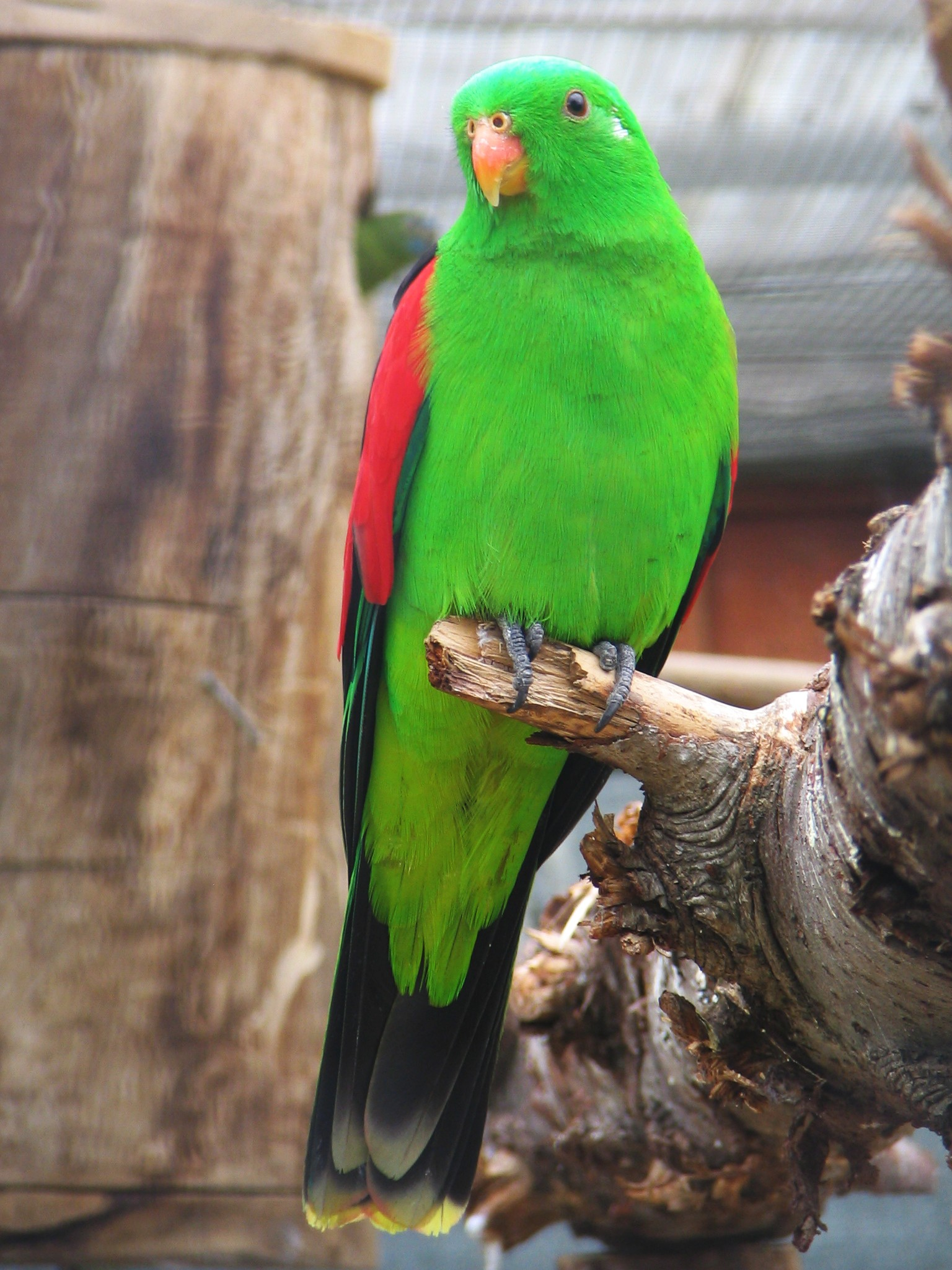 A Red-winged Parrot in the Dunedin Botanic Gardens aviary, New Zealand.